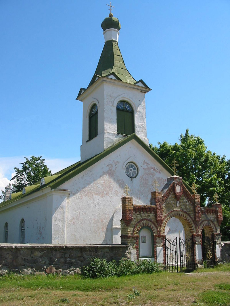 Church of Kihnu.